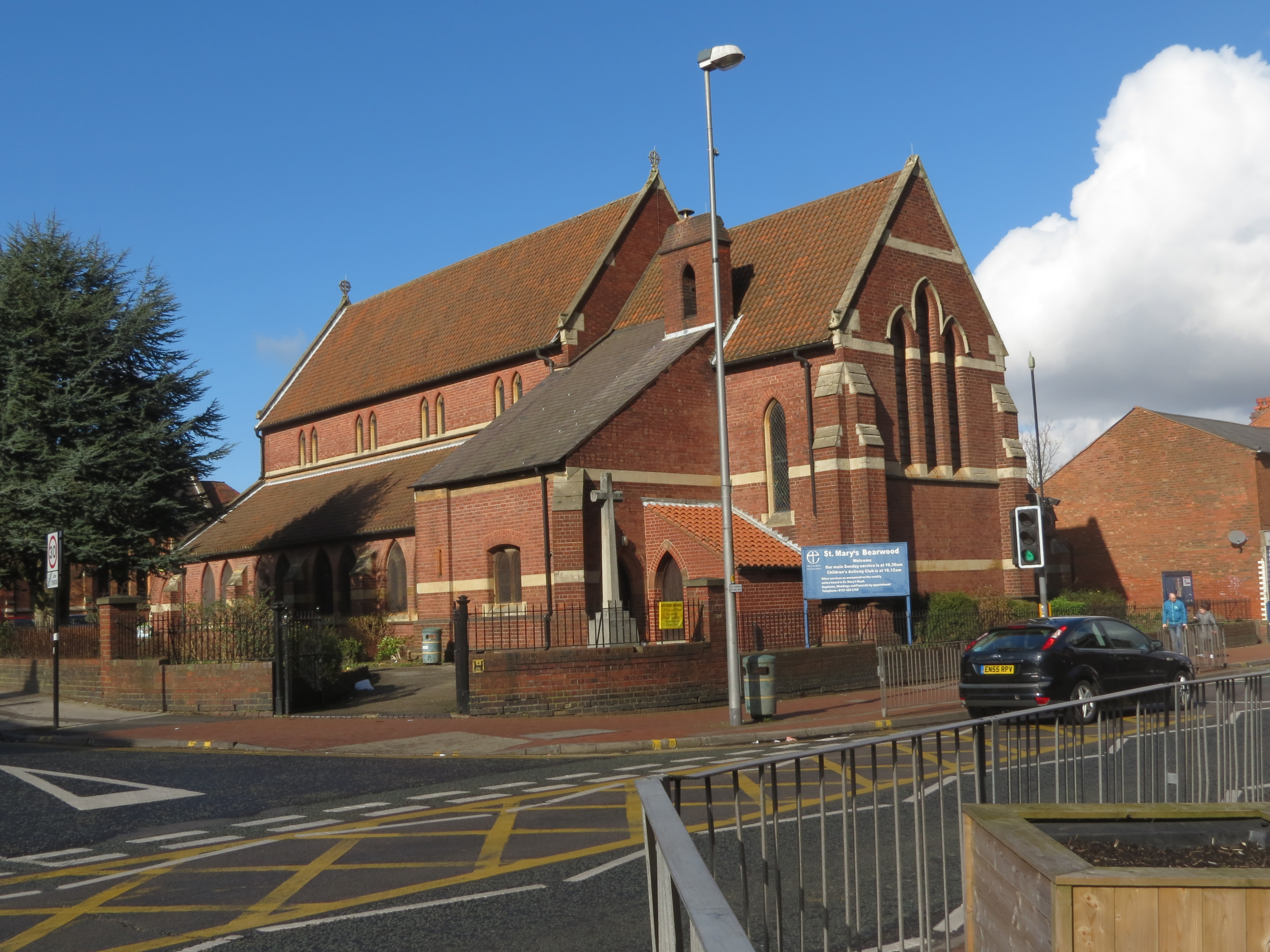 St Mary's Church, Bearwood, Smethwick.